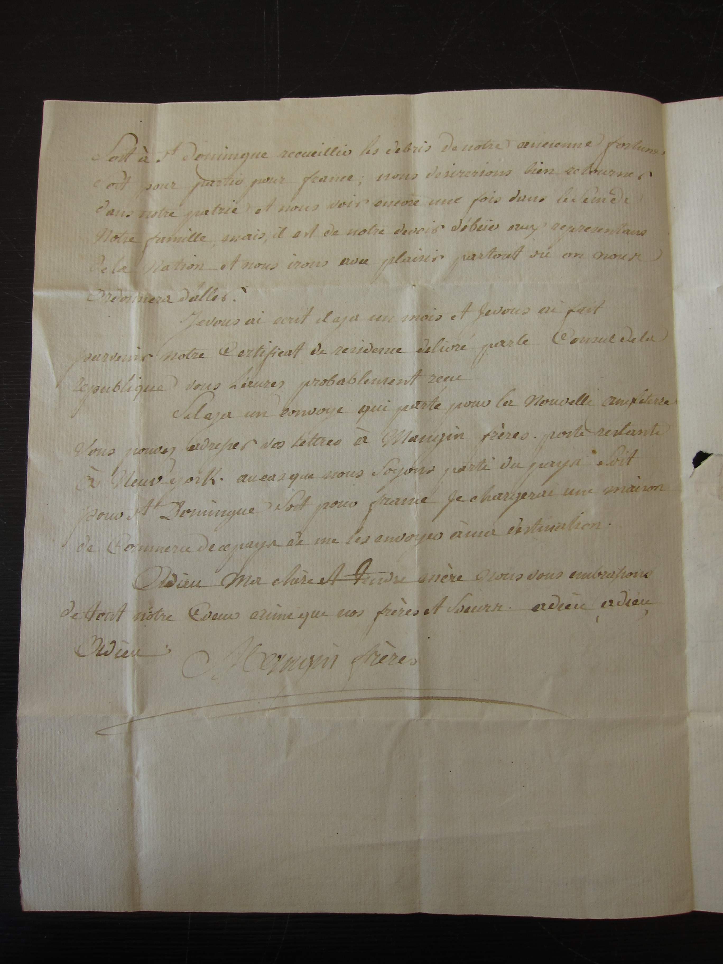 Letter to his mother following his arrival in New York City